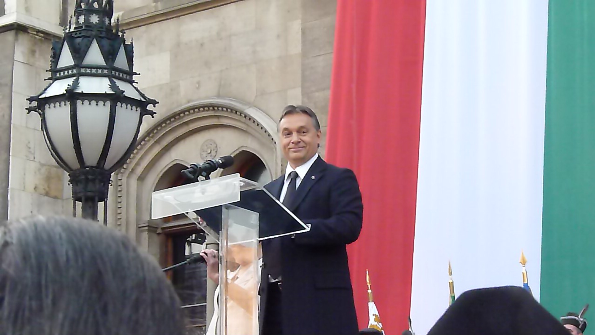 Live on the 23rd of october, 2012. Budapest, the Kossuth square. The National Day of Magyarország, The 56th anniversary of the 1956 freedom fight. Orbán Viktor, during the speech held by Ilonka. ©© Published under Creative Commons in the Metapolisz DVD line. All of the photos and vids in the Metapolisz DVD line are under Creative Commons and can be used even for commercial – for profit – purposes. Recommended Citation Derzsi Elekes Andor: Metapolisz DVD line A felvétel 2012. október 23 – án készült Budapesten, a Kossuth téren, Ilonka beszéde alatt. ©© Megjelent Creative Commons alatt a Metapolisz sorozatban. A Metapolisz sorozat valamennyi képe és filmje Creative Commons alatti valamint kereskedelmi - for profit - célra is felhasználható. Ajánlott hivatkozás: Derzsi Elekes Andor: Metapolisz DVD line